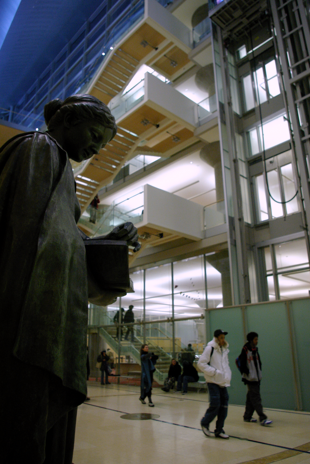 Central Minneapolis Public Library, Minneapolis, Minnesota, USA